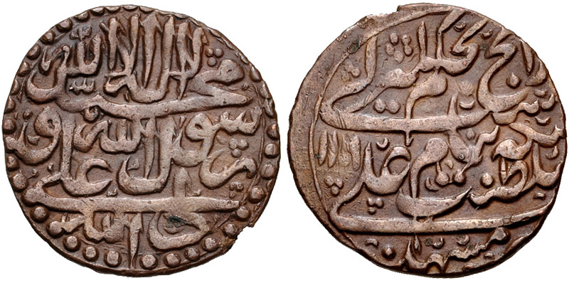 Coin of the Afsharid shah Adil Shah.